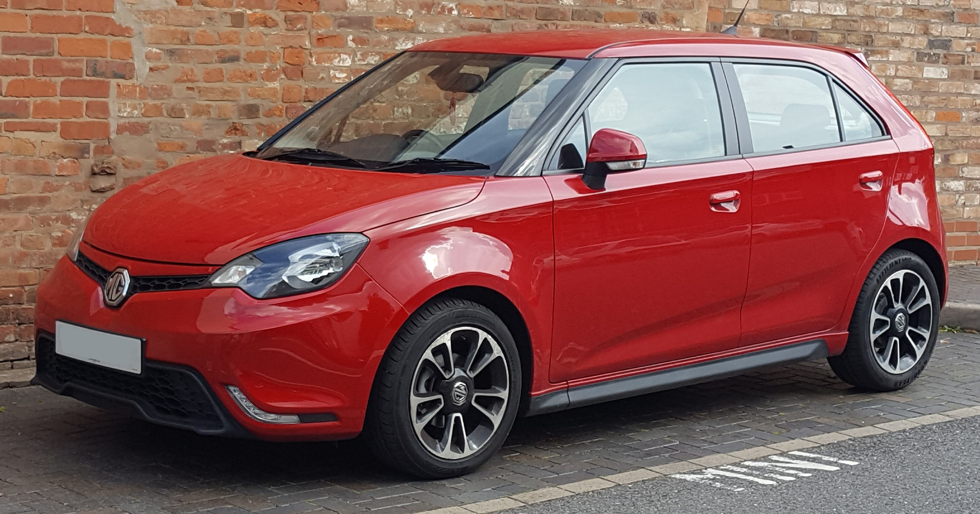 2015 MG 3 Style VTi-Tech 1.5 Front Taken in Warwick